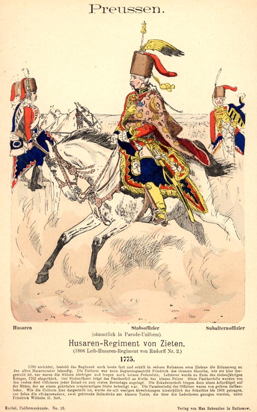 Preußen. Husaren-Regiment von Zieten. 1775